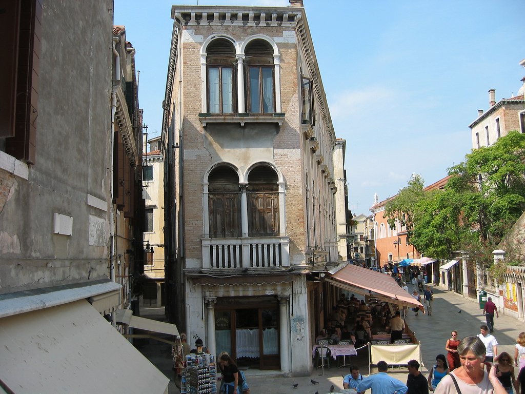 Street, Venezia, Italy.